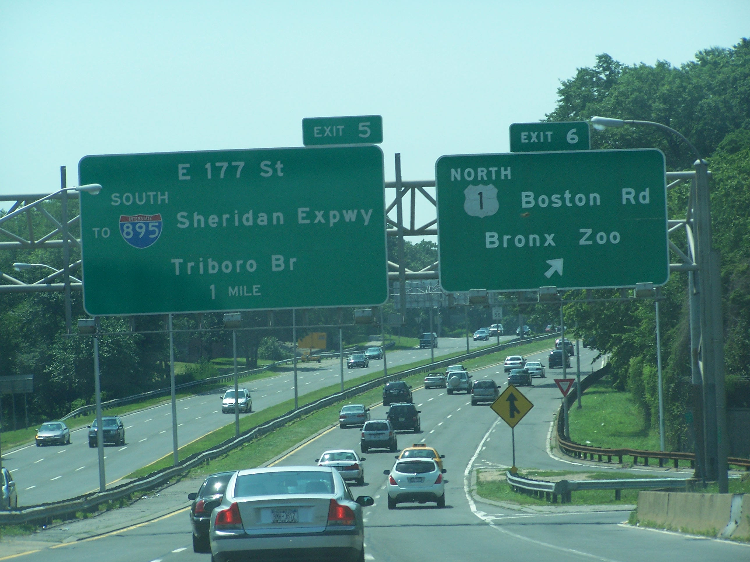 Overheads on the Bronx River Parkway, as it passes through the eastern part of Bronx Park.